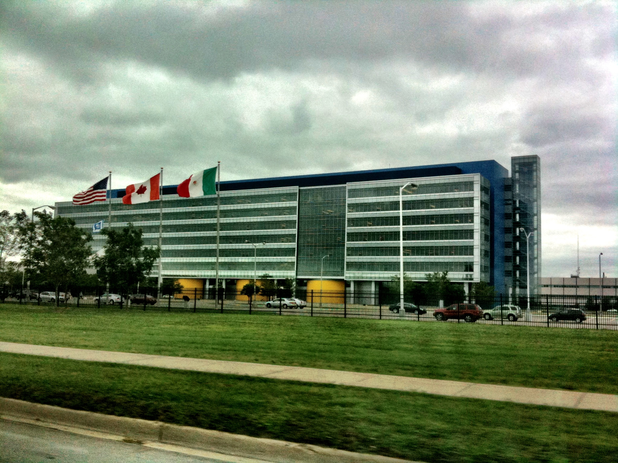 General Motors Technical Center in Warren, Michigan